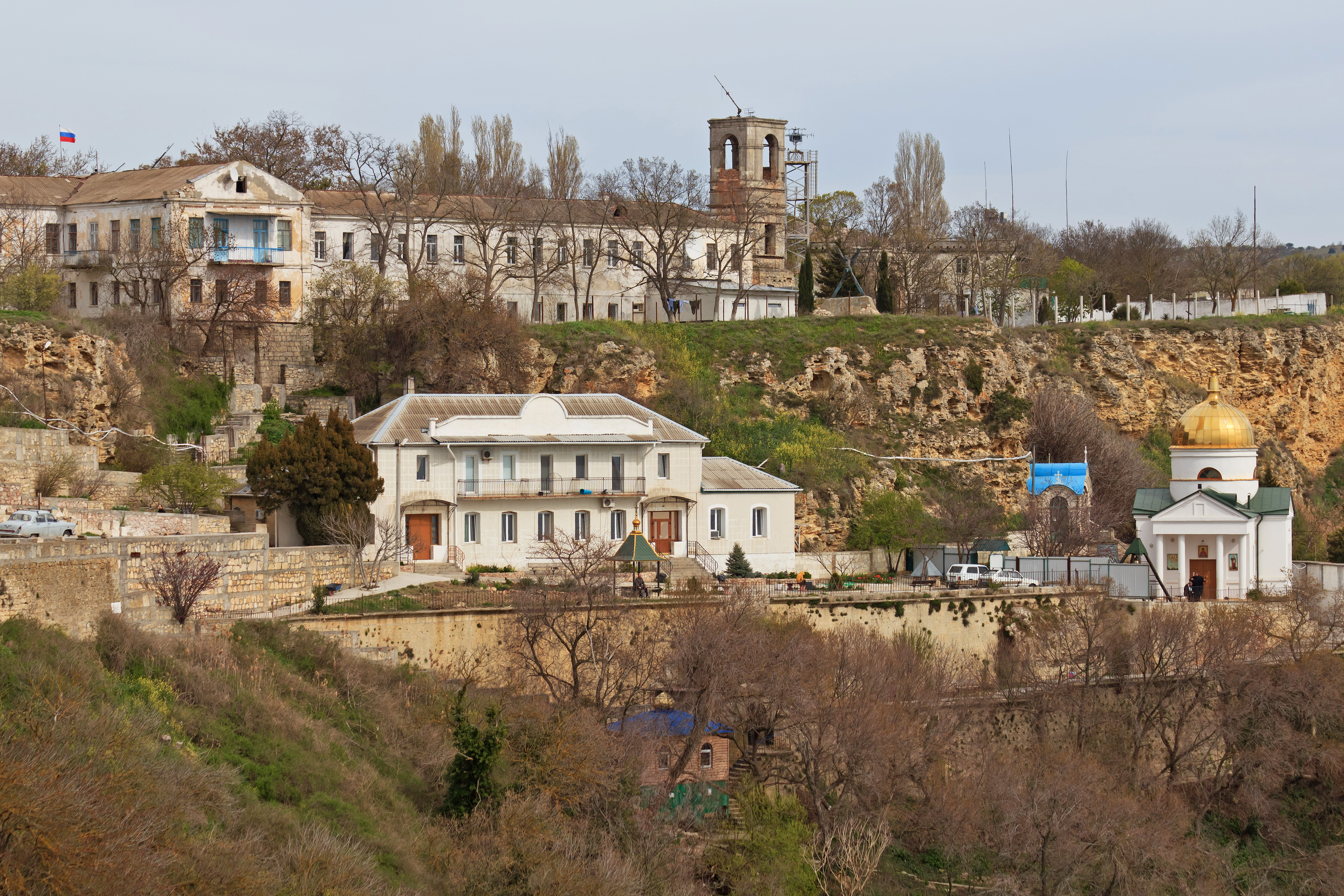 View to the Saint George Monastery at Cape Fiolent in the Federal City of Sevastopol. Crimean peninsula.